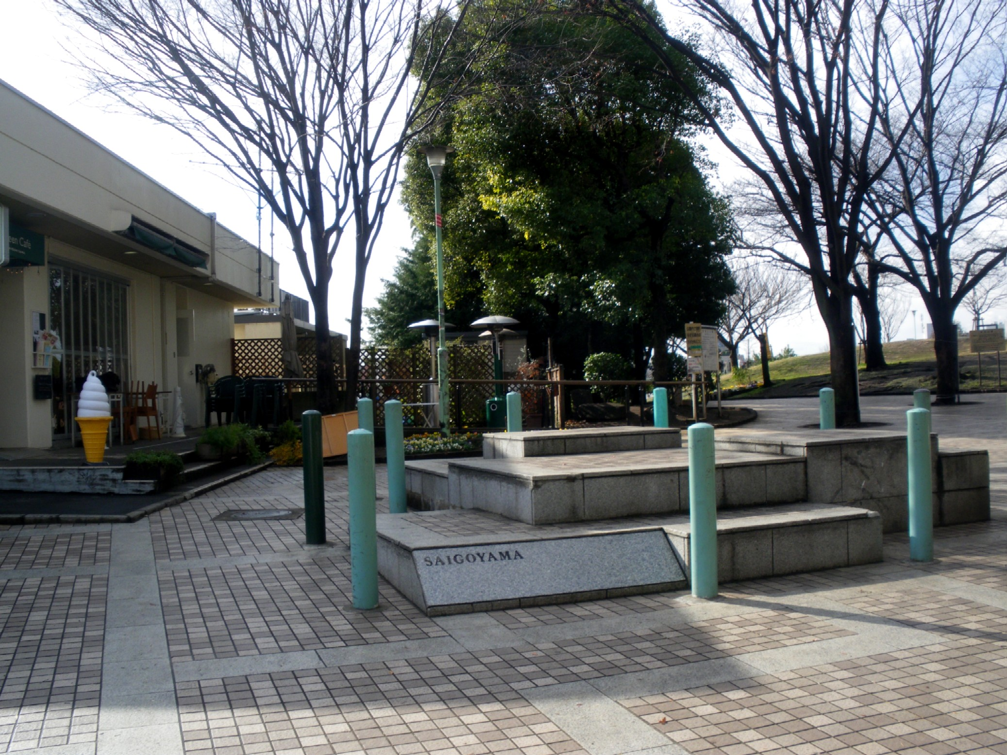 Saigoyama park (seen from east side) in Aobadai, Meguro-ku, Tokyo, Japan